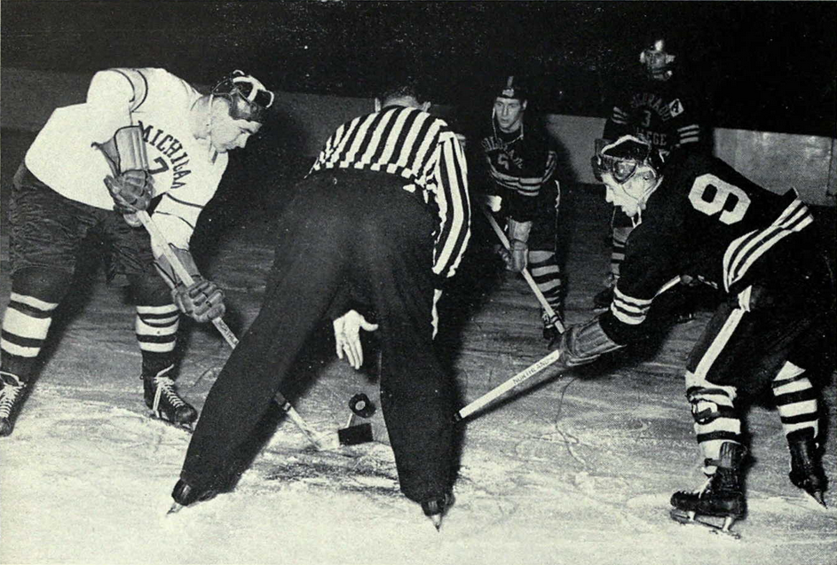 Photograph Bill MacFarland of the University of Michigan in face off against Clare Smith of Colorado